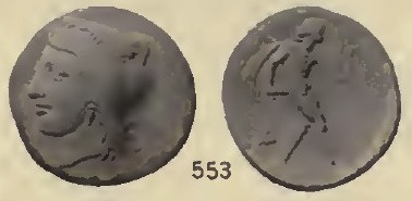 Greek coins and their parent cities (1902) Author: Ward, John, 1832-1912; Hill, George Francis, Sir, 1867-1948 Subject: Coins, Greek; Numismatics, Greek; Greece -- Description, geography; Italy -- Description and travel; Turkey -- Description and travel Publisher: London : Murray Possible copyright status: NOT_IN_COPYRIGHT Language: English Call number: AKB-0671 Digitizing sponsor: MSN Book contributor: Robarts - University of Toronto Collection: toronto Scanfactors: 7